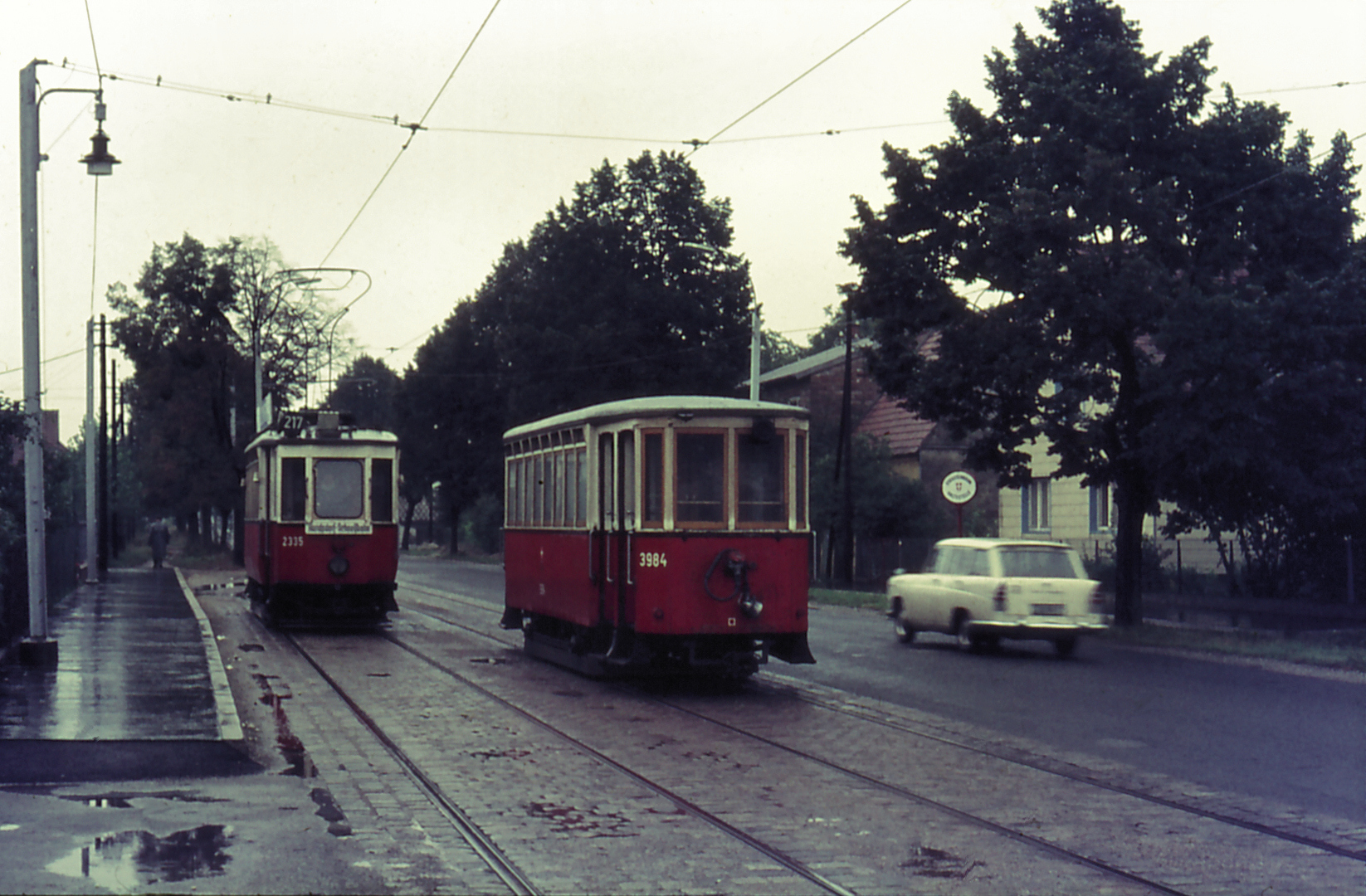 Motorcar 2335 reversing trailer 3984 at the terminus English Feld of route Nº 217. route Nº 317 continued from here till Groß Enzersdorf. The line was closed in September 1970.